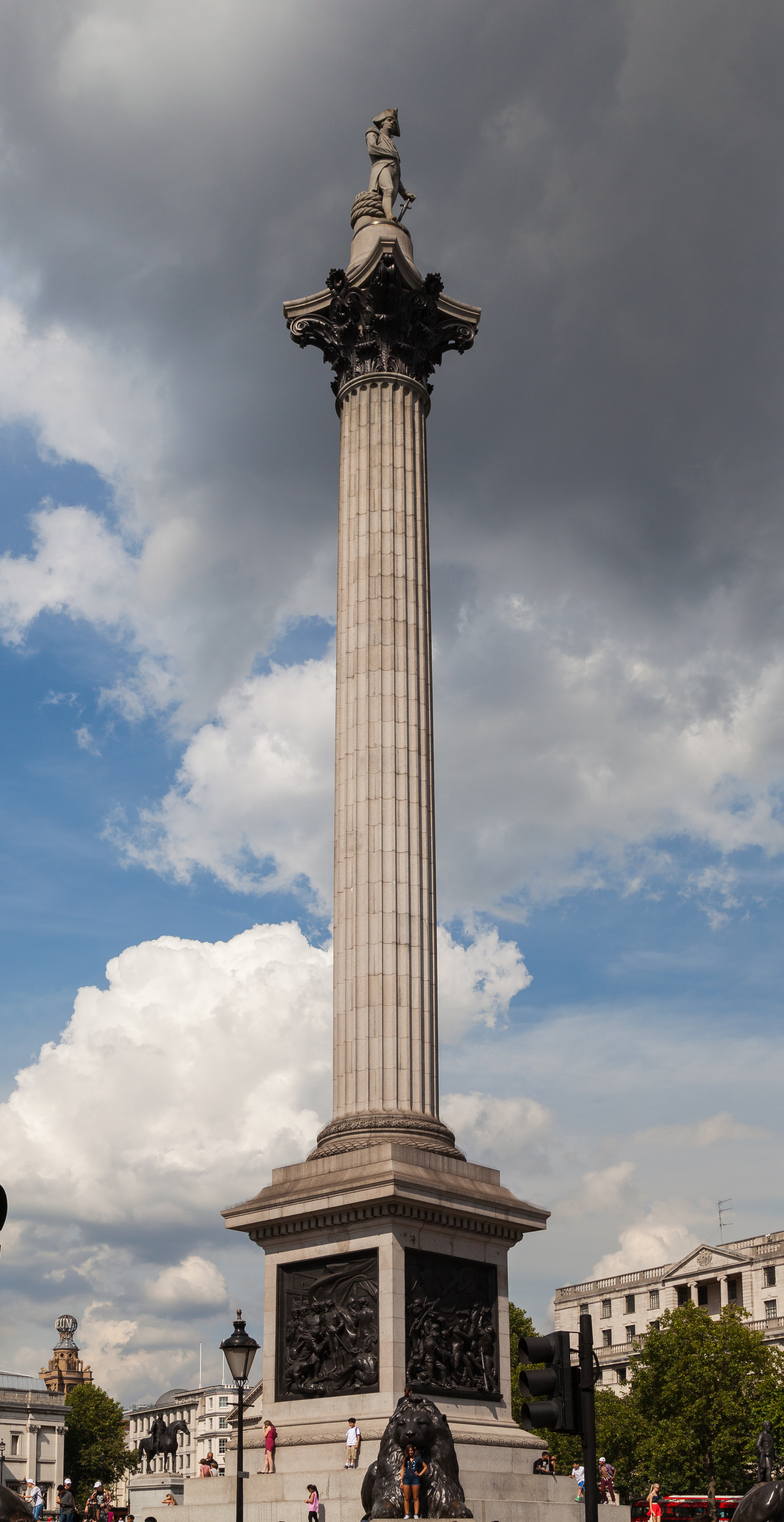 Nelson's Column, Trafalgar Square, London, England